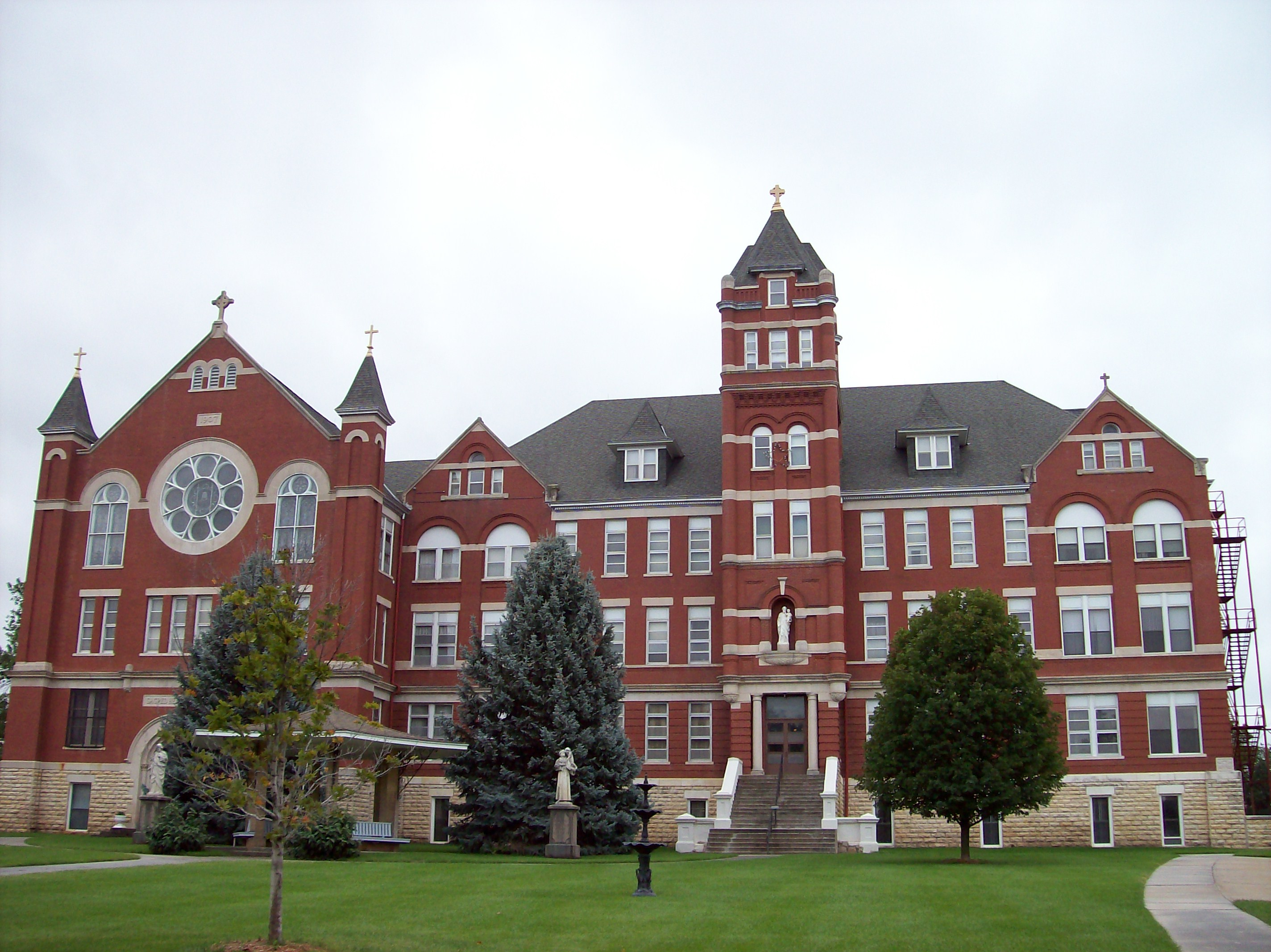 Nazareth Convent and Academy, Concordia, Kansas. September 2007. Photo by Paul McDonald, released to the public domain.